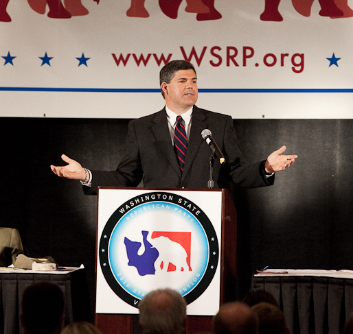 U.S. politician James Watkins speaking